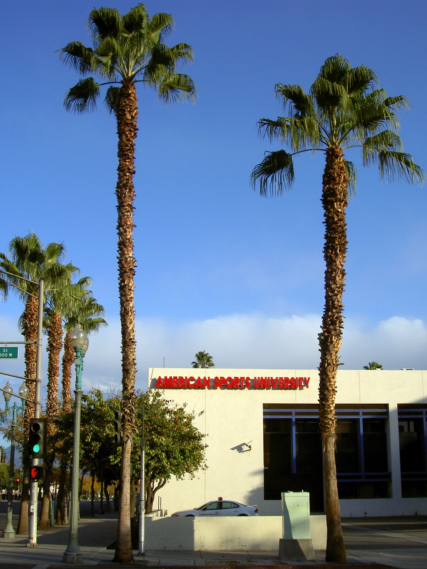 San Bernardino, CA